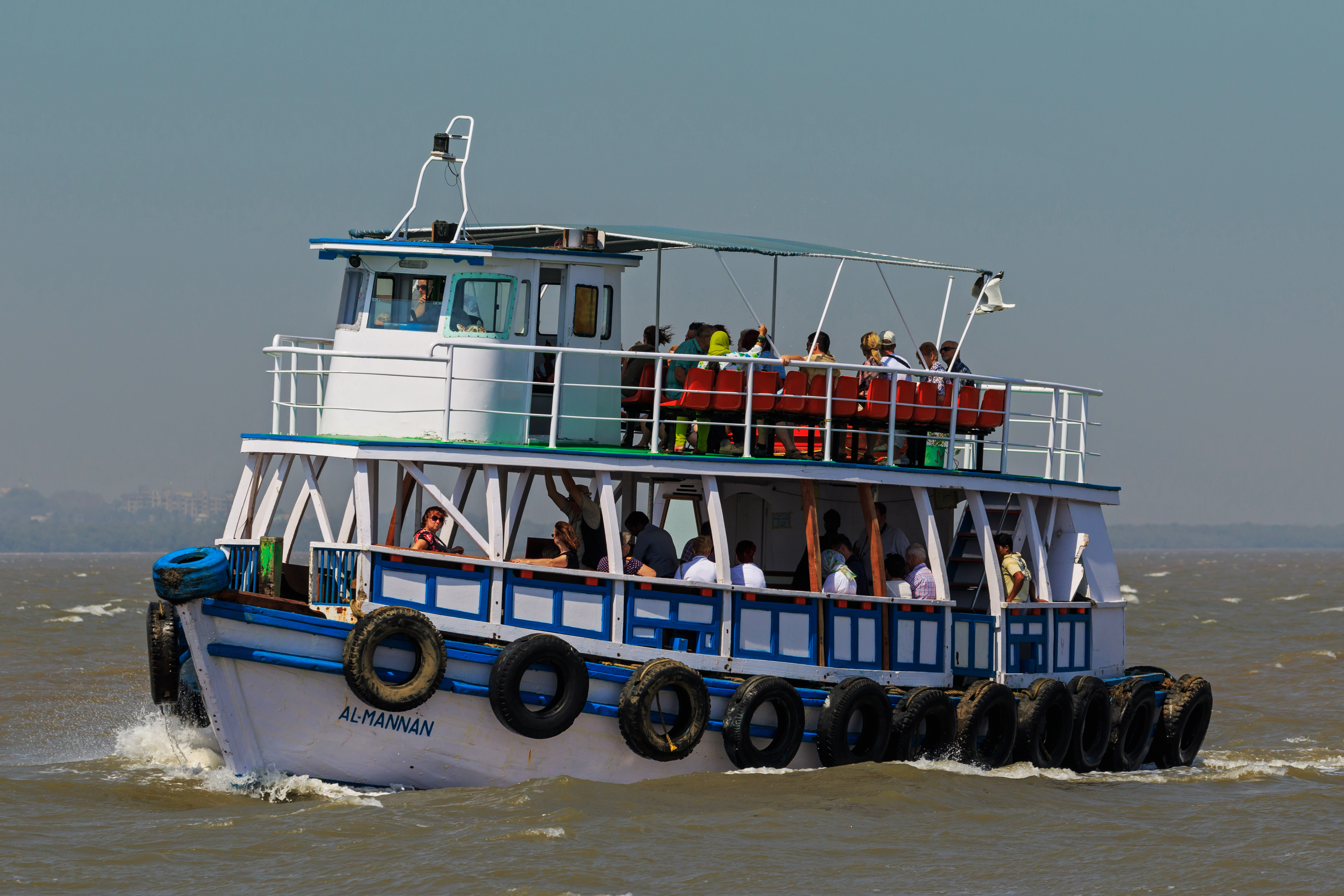 Ferry ship at Elephanta Island on the way to Mumbai. Taken from Mumbai-Elephanta ferry. Maharashtra, India.